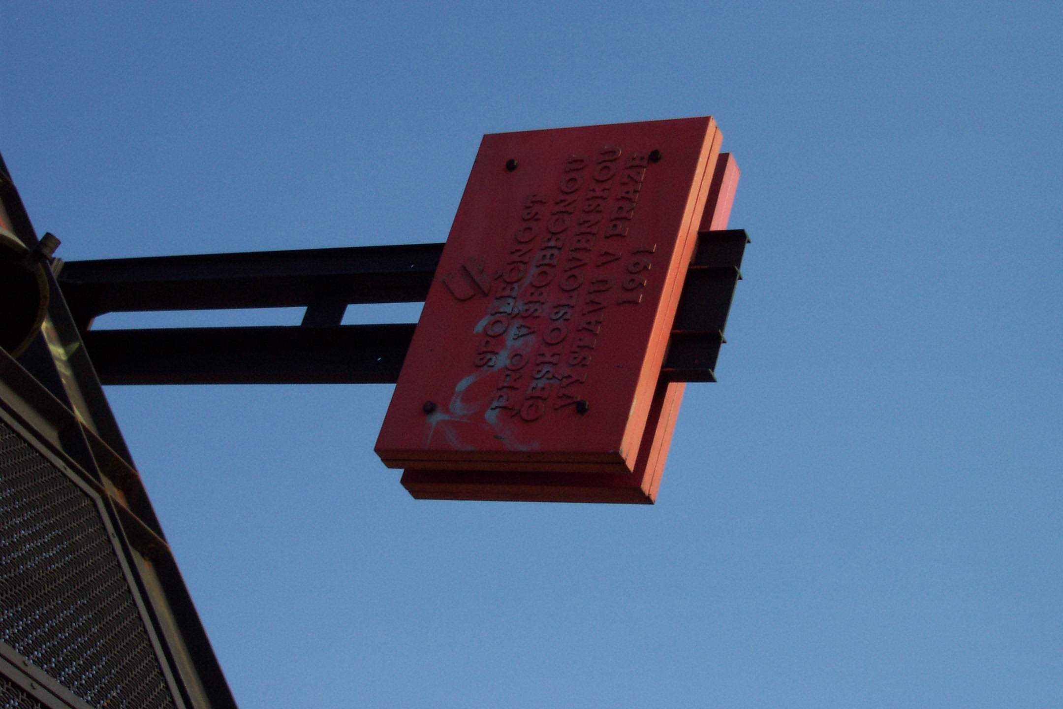 Metronome, 1991 in Prague Letná